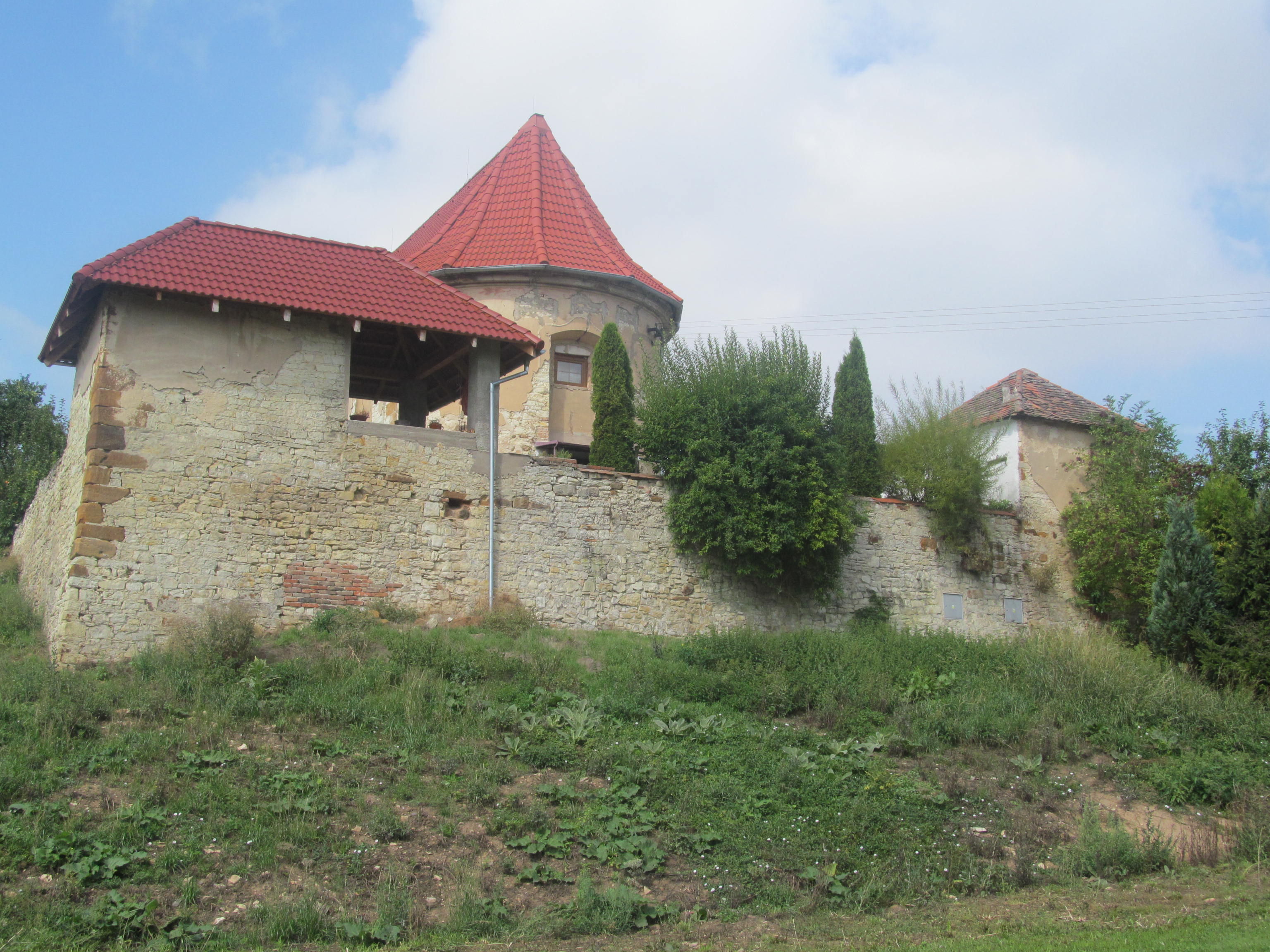 Presbytery of the chapel in Selmice with two mortuaries